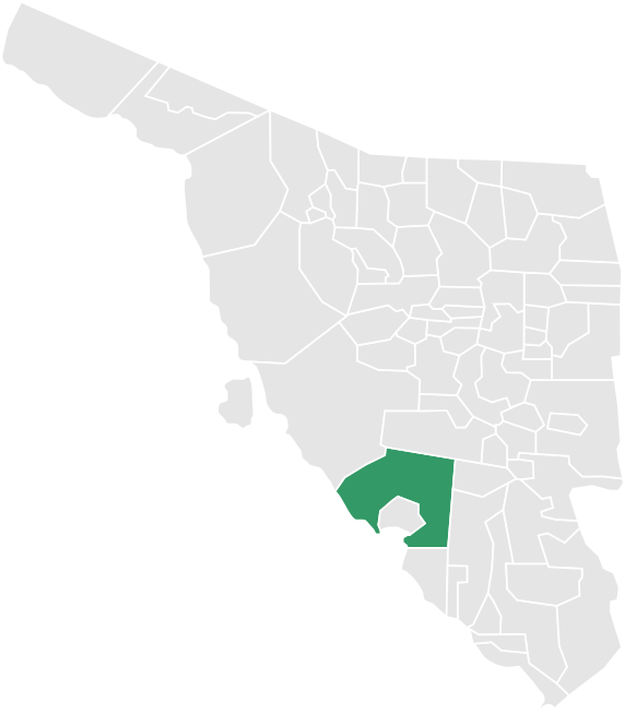 Map of the Municipalty of Guaymas in the State of Sonora, México.